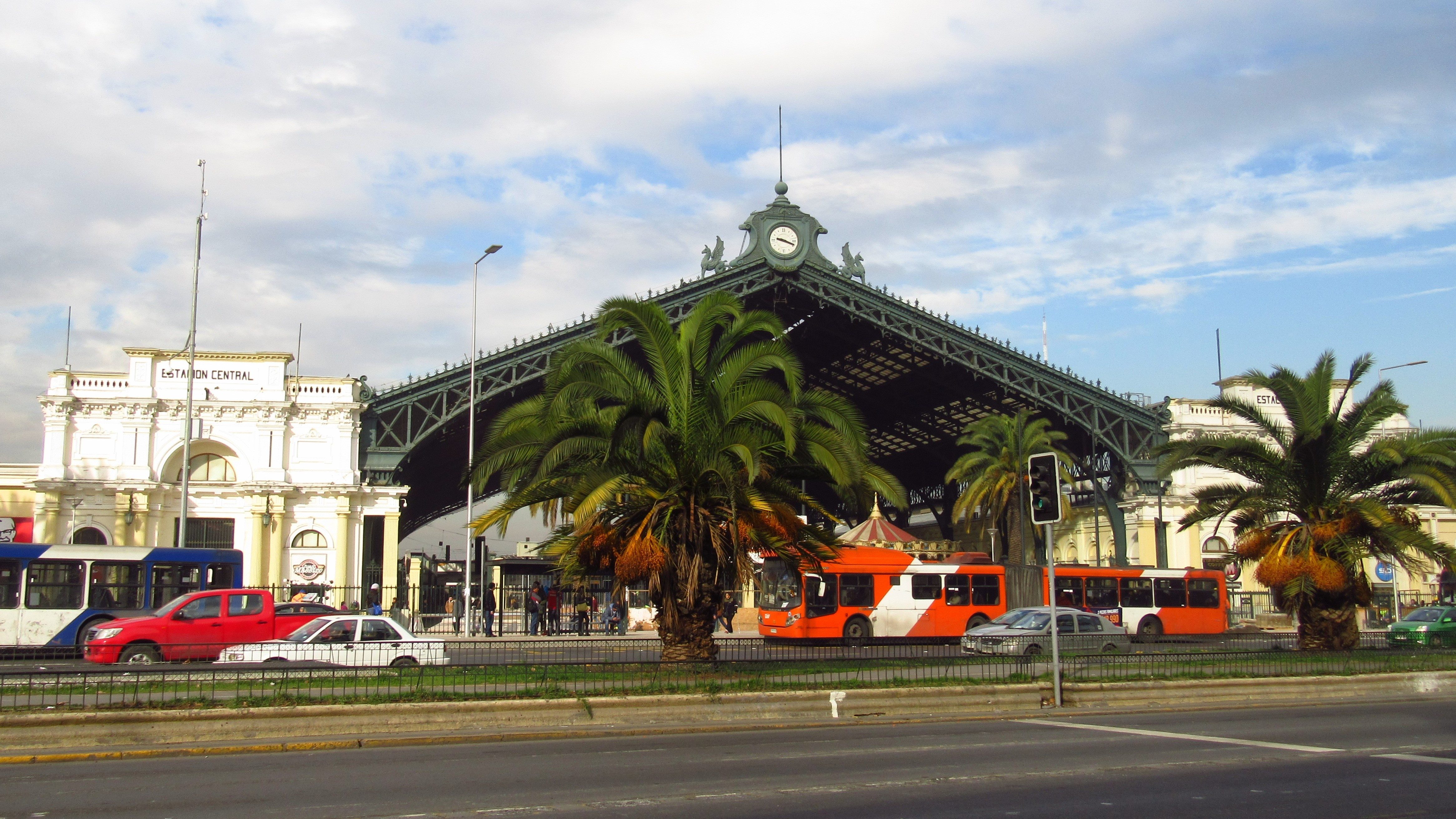 2017 in Santiago de Chile